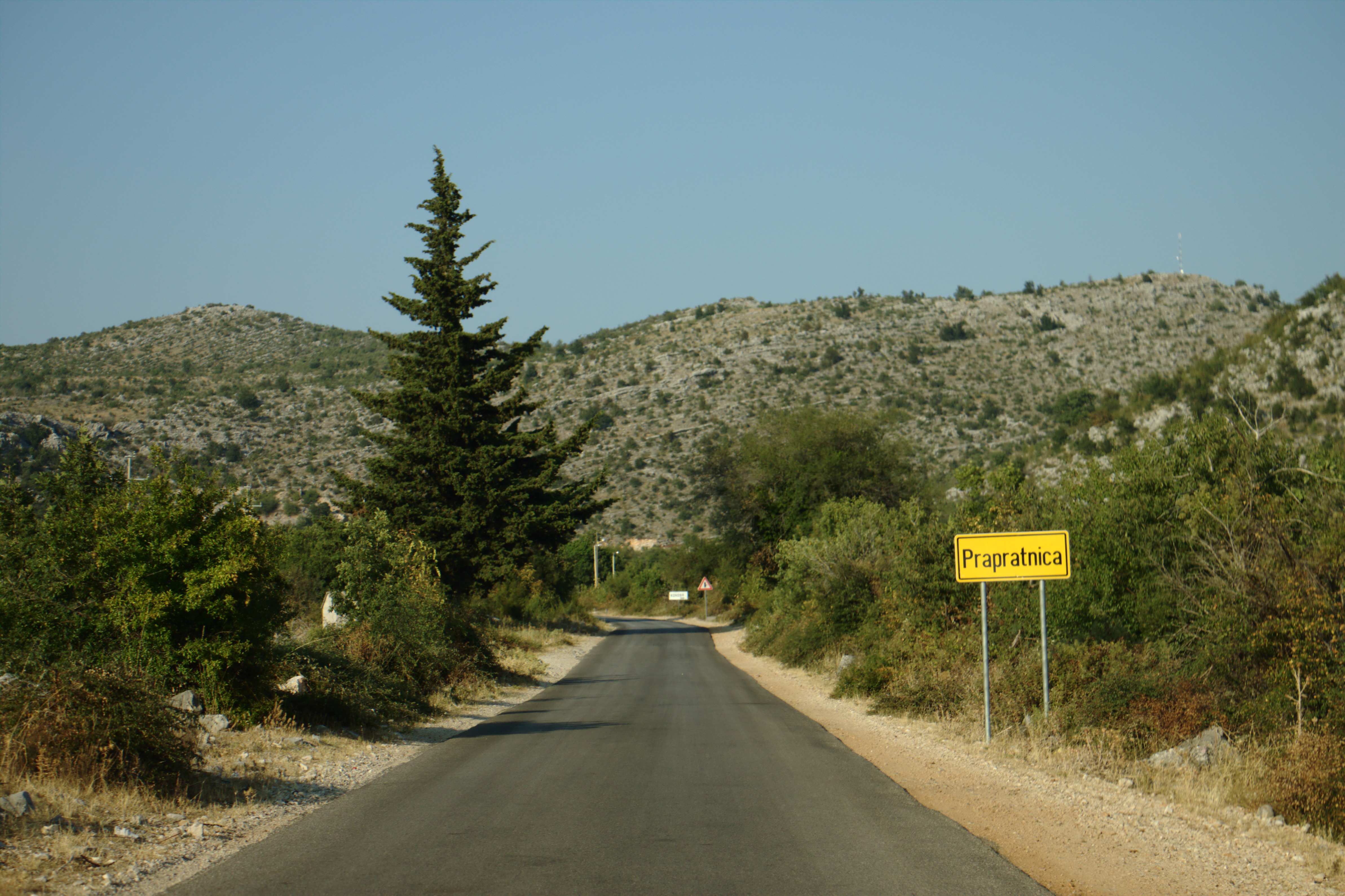 Arrival to the village of Prapratnica, BiH